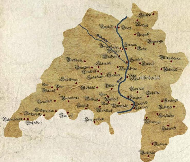 Management area of the bavarian Bezirksamt Marktheidenfeld in 1875. Traced from the Topographischer Atlas vom Königreiche Baiern diesseits des Rhein Blatt: 17. Aschaffenburg, Blatt: 18. Karlstadt, Blatt: 25 Miltenberg and Blatt: 26. Würzburg